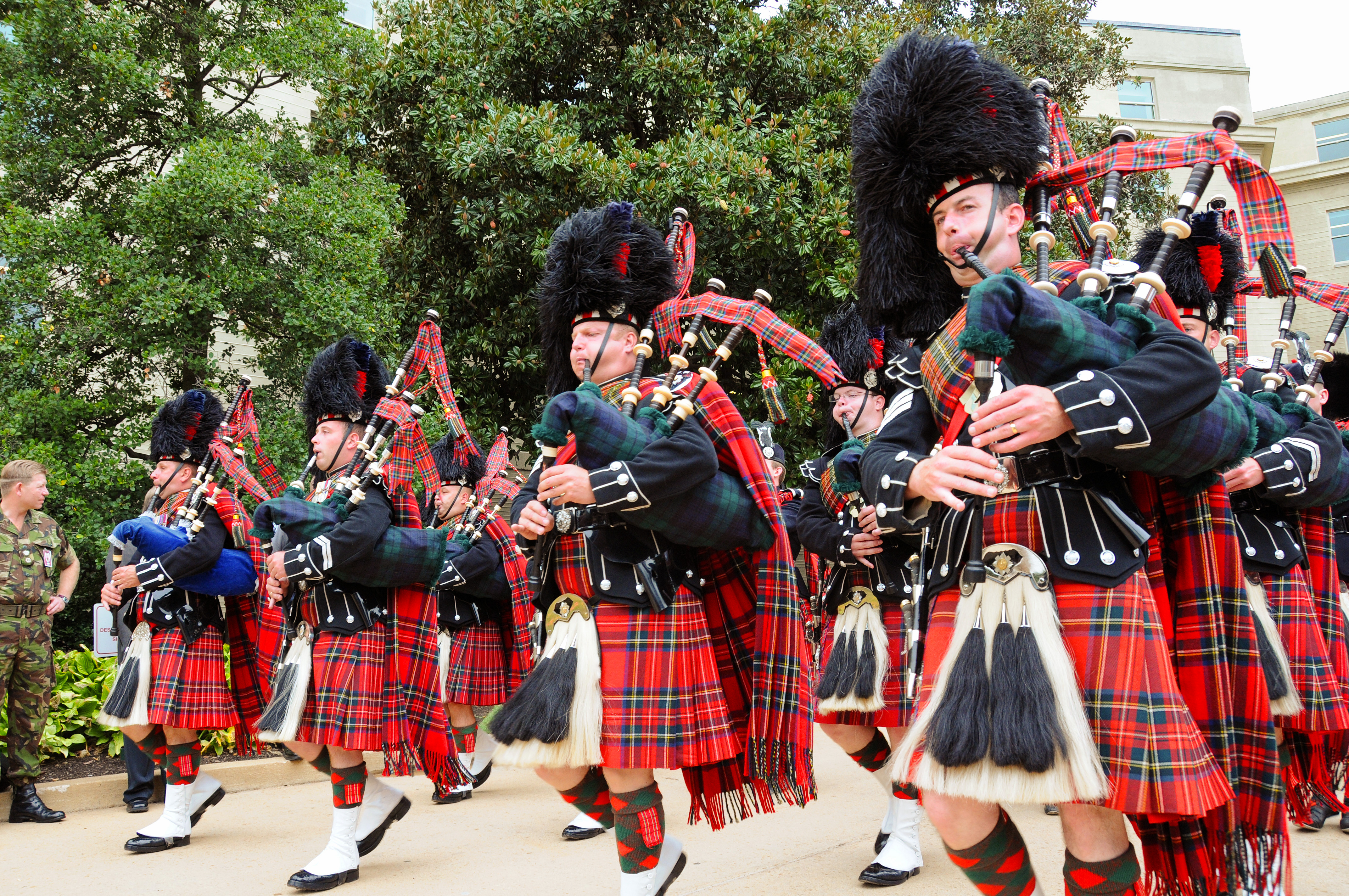 The Pipes and Drums of the 1st Battalion Scots Guards march into the Pentagon courtyard to put on a lunchtime show of bagpiping, drumming and highland sword dancing Sept. 25.